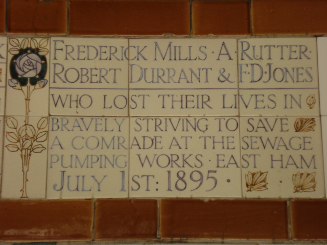 Postman's Park is a small green memorial garden in the City of London. It is located between King Edward Street, Little Britain and Angel Street. It was created in 1880 from the churchyards of St Leonard, Foster Lane and St Botolph Aldersgate together with the graveyard of Christ Church Greyfriars. St Leonard's had been a ruin since the Great Fire and was probably demolished at the time of the creation of the park. St Botolph's is still open and stands at the north east corner of the park. Christ Church was detached from its graveyard and is now a ruin on the other side of King Edward Street. The memorial in the park was the idea of the painter George Frederic Watts who wanted to celebrate the heroism of people who may otherwise have been forgotten. The park's name refers to the postmen who work in the principal London post office and the former sorting office in King Edward Street. A wall in the park has 47 hand-painted tiles paying tribute to everyday people who sacrificed their lives helping others. The hand-lettered tiles were made by Royal Doulton. A new plaque has recently been added to remember a lost life from 2007, Leigh Pitt,30,who died saving a drowning boy. In addition at a celebration of Postman's Park organised by Watts Gallery a ceramic plaque was added to the left of the main memorial to explain its origin.